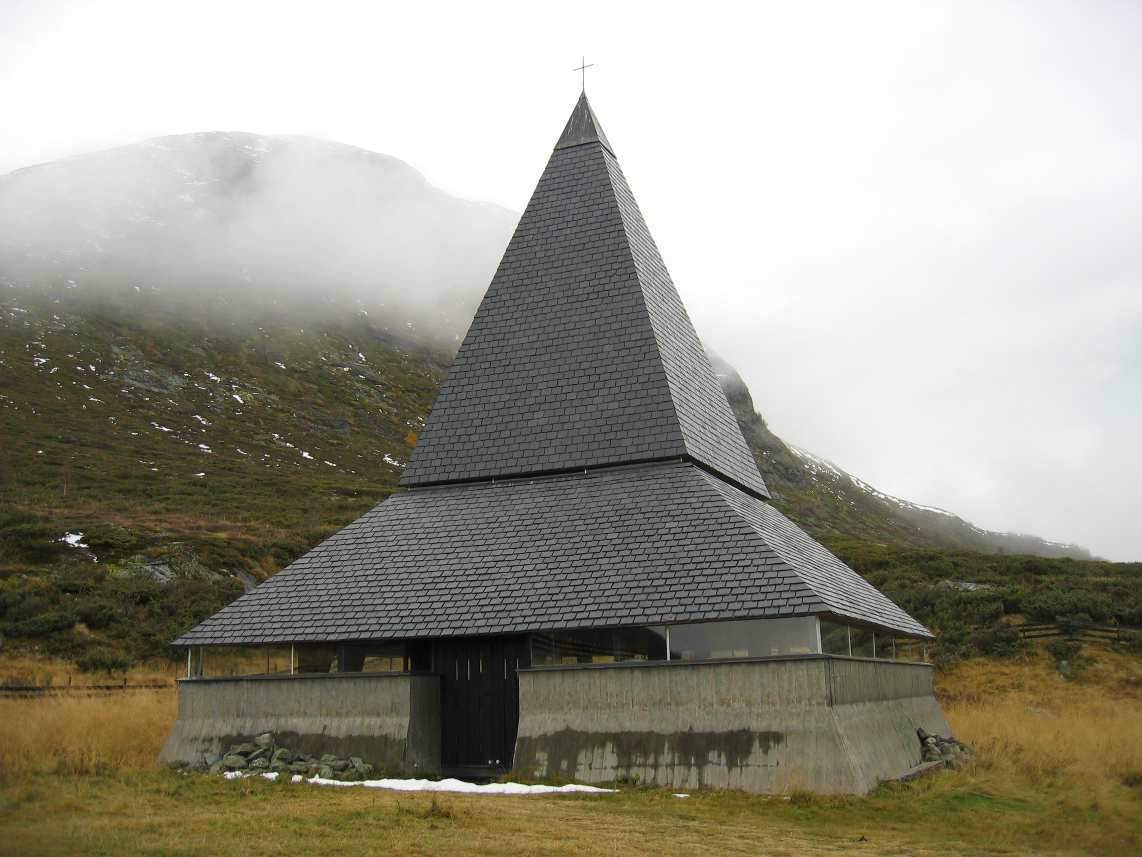 St. Thomas Church, Filefjell, Vang, Oppland, Norway